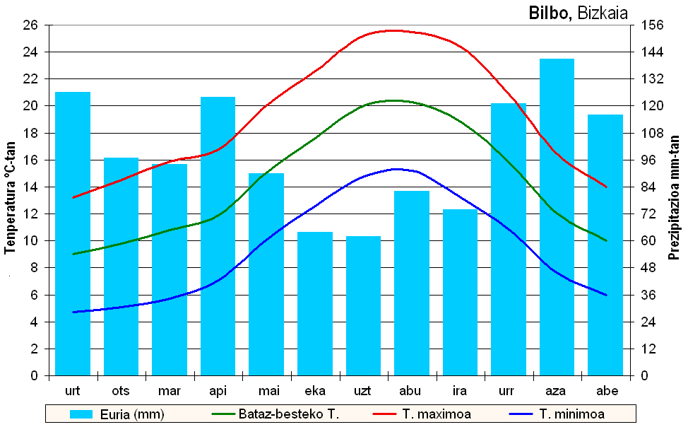 education management